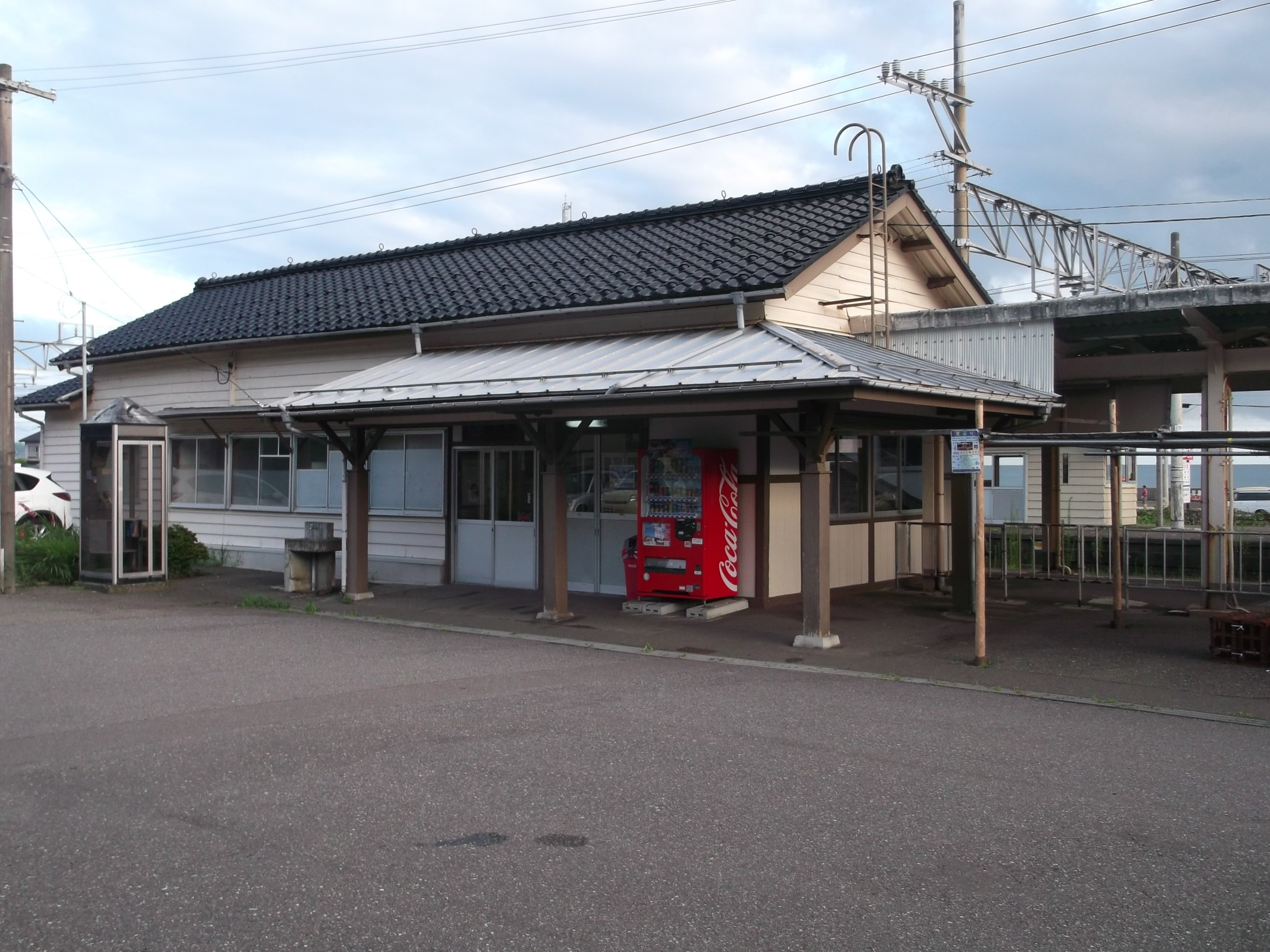 Tanihama Station on the Hokuriku Main Line in Niigata Prefecture, Japan